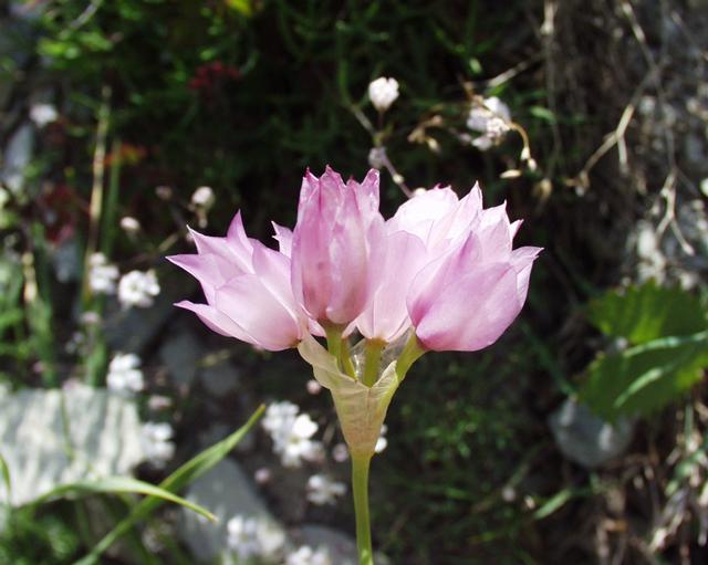 (en) Allium narcissiflorum, a photography originating of the internet site The accord of the autor, H. Brisse, is here. (fr) Ail à fleurs de narcisse (Allium narcissiflorum), une photographie issue du site internet L'accord de l'auteur, H. Brisse, se situe ici. (de)Piemonteser Lauch, (it)Aglio piemontese